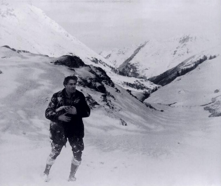 Malcolm Keen still of the 1927 film The Mountain Eagle, director: Alfred Hitchcock